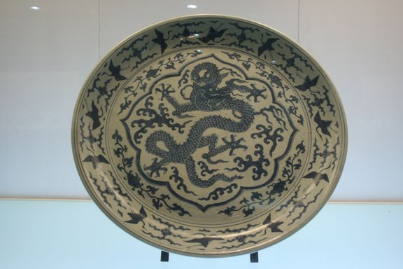 A Chinese Ming Dynasty (1368-1644 AD) blue-and-white porcelain dish from the reign of the Jiajing Emperor (1521-1567 AD).